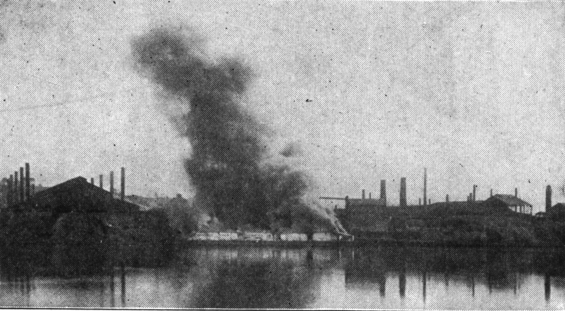 Burning of Barges during Homestead Strike